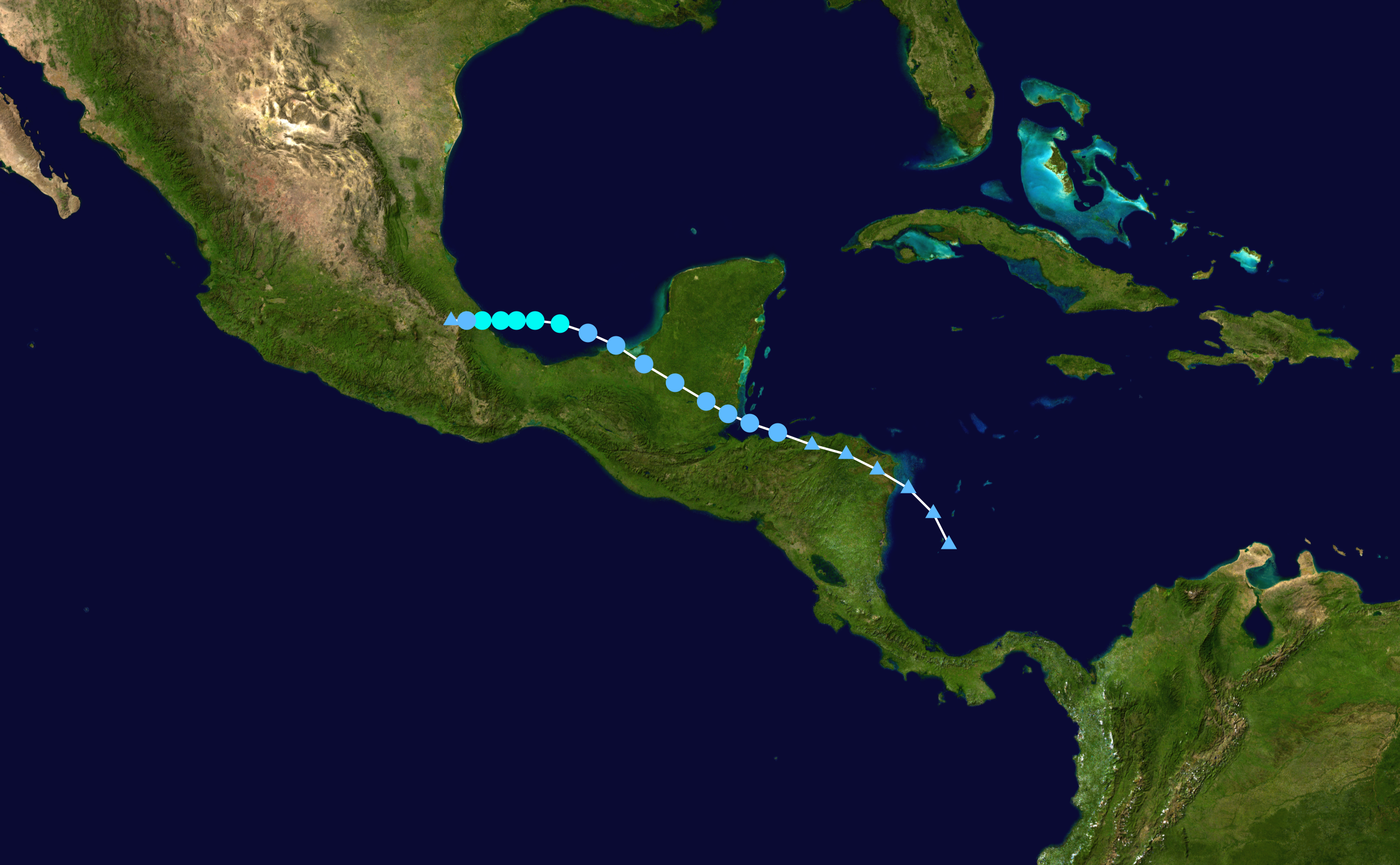 Track map of Tropical Storm Barry of the 2013 Atlantic hurricane season. The points show the location of the storm at 6-hour intervals. The colour represents the storm's maximum sustained wind speeds as classified in the Saffir–Simpson scale (see below), and the shape of the data points represent the nature of the storm, according to the legend below. Saffir–Simpson scale Tropical depression≤38 mph≤62 km/h Category 3111–129 mph178–208 km/h Tropical storm39–73 mph63–118 km/h Category 4130–156 mph209–251 km/h Category 174–95 mph119–153 km/h Category 5≥157 mph≥252 km/h Category 296–110 mph154–177 km/h Unknown Storm type Tropical cyclone Subtropical cyclone Extratropical cyclone / Remnant low / Tropical disturbance / Monsoon depression